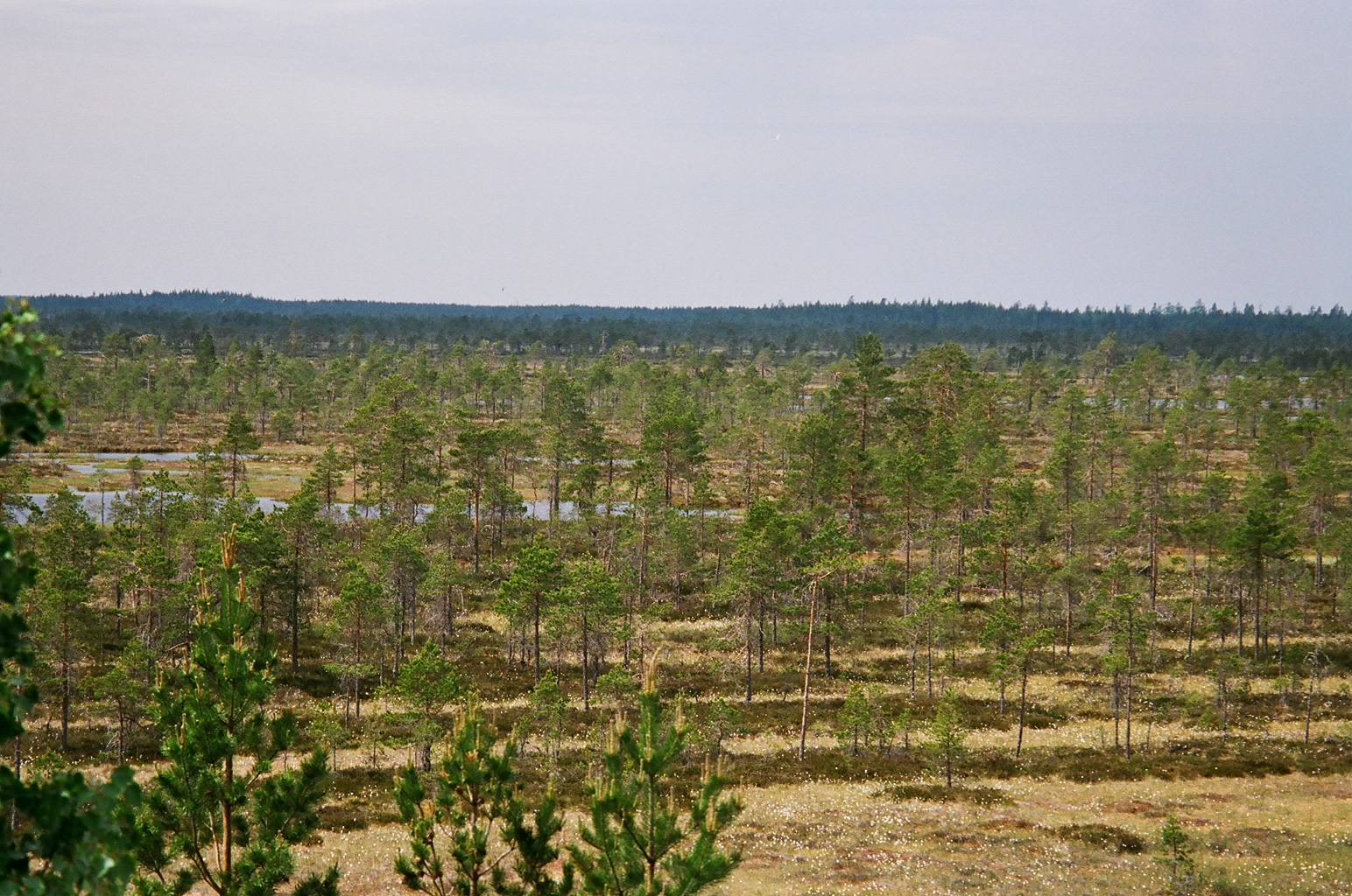 The Kauhaneva mire, one of the biggest mires in the southern half of Finland and a very significant nesting site for many bird species (especially cranes), is protected in the Kauhaneva–Pohjankangas National Park in the municipality of Kauhajoki, Southern Ostrobotnia.